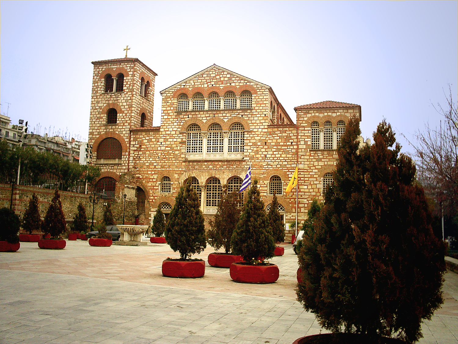 Church of Saint Demetrius Patron Saint of Thessaloniki